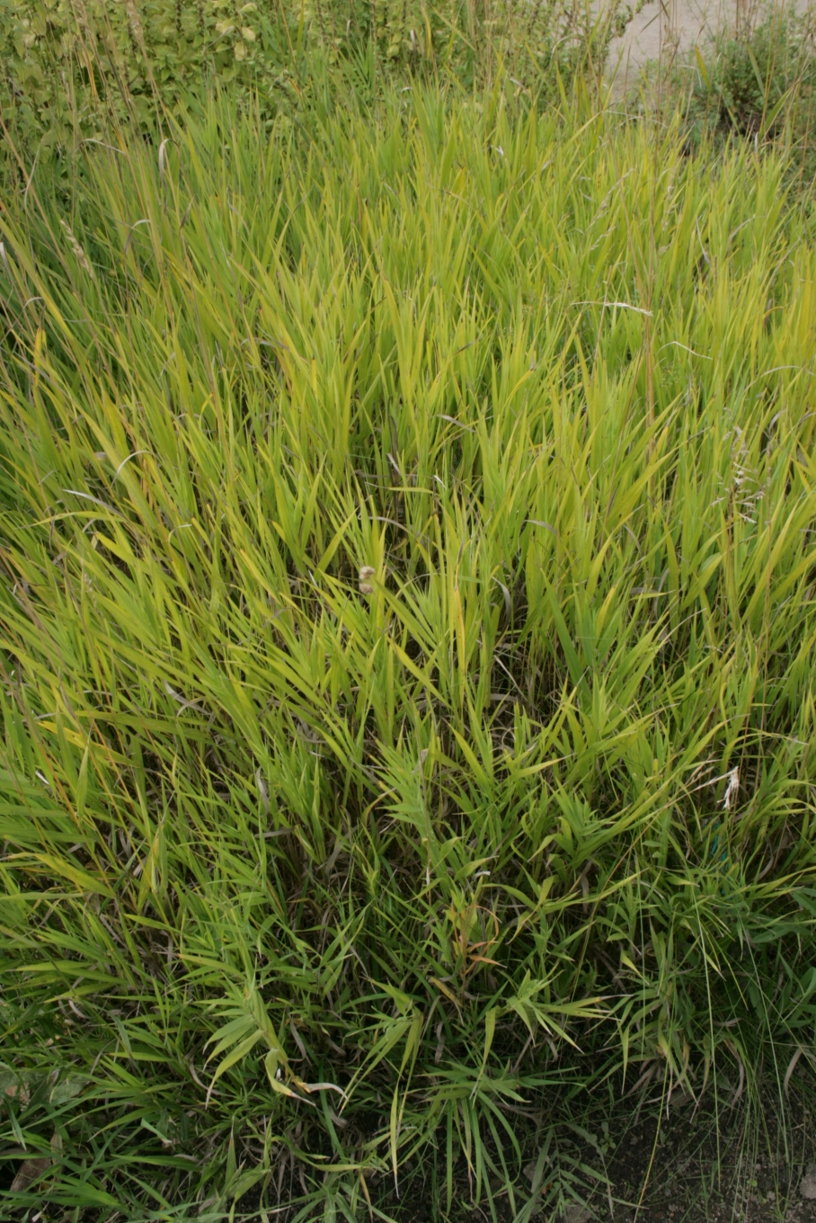 Bromus erectus: Habitus (Photo from the Botanical Garden of Aarhus, Denmark)